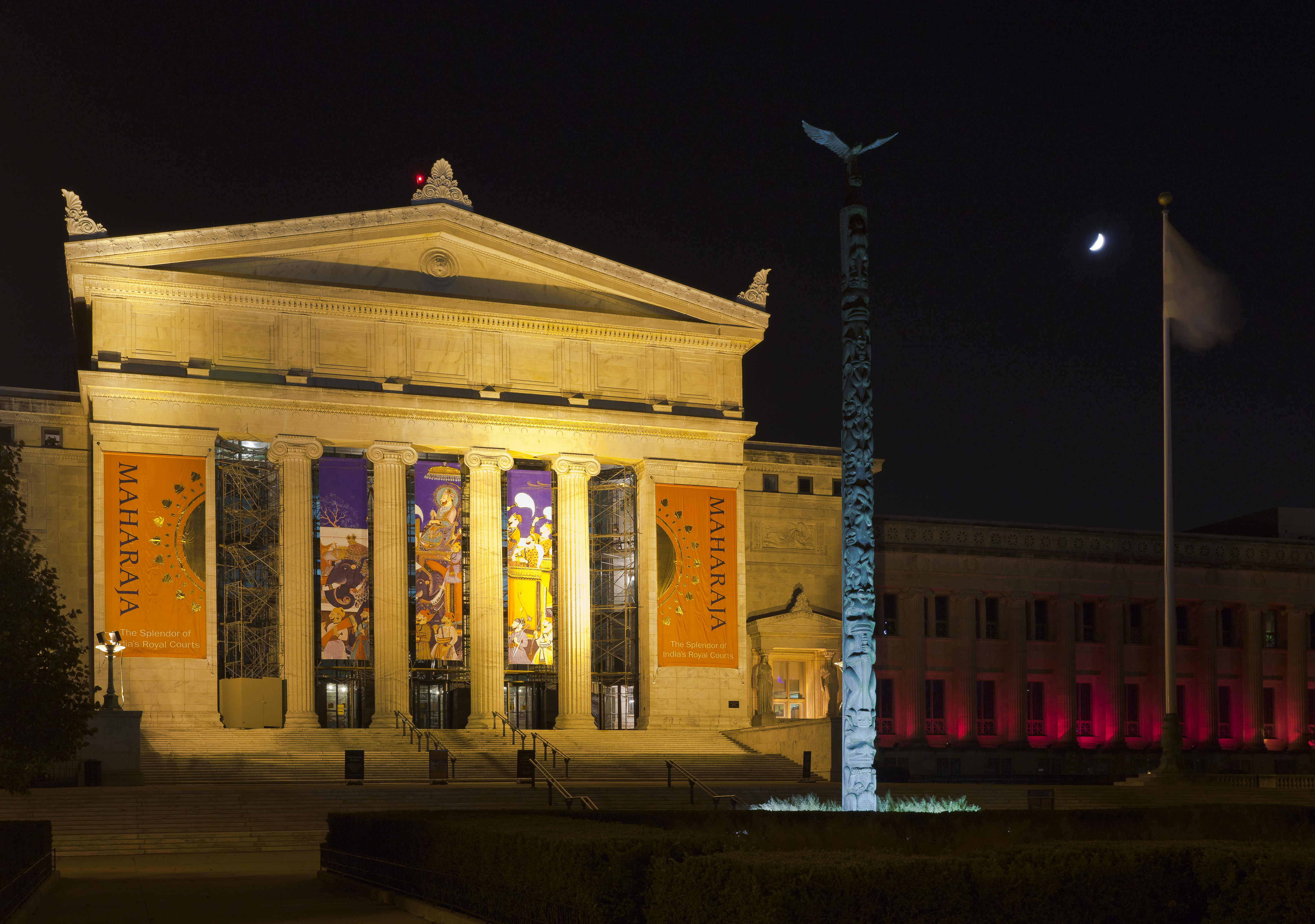 Field Museum, Chicago, Illinois, USA